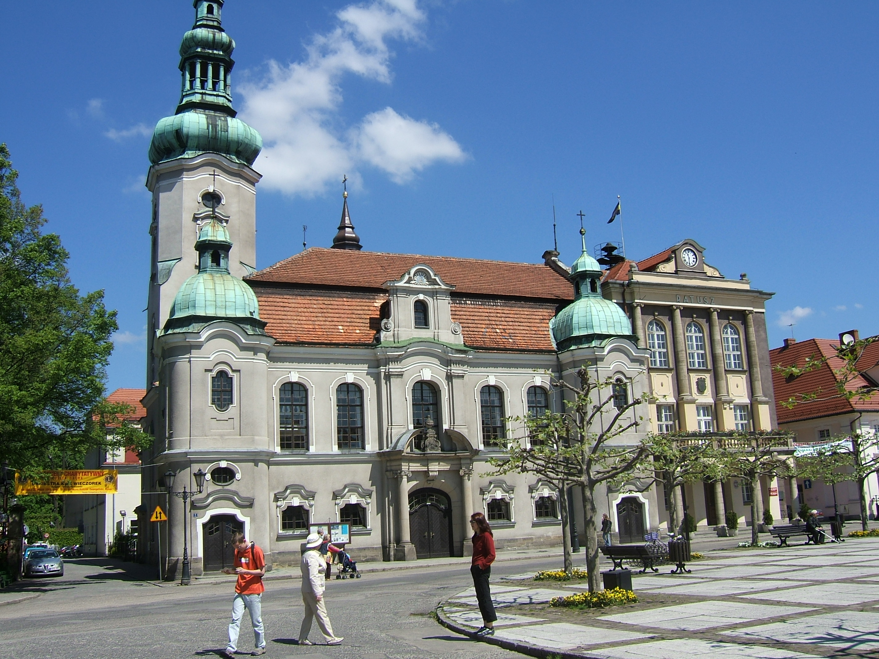 The market square Rynek in Pszczyna with the town hall on the right hand site, and the protestant church beside (all 19th century)